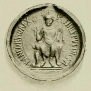 Seal of Philip I of France.